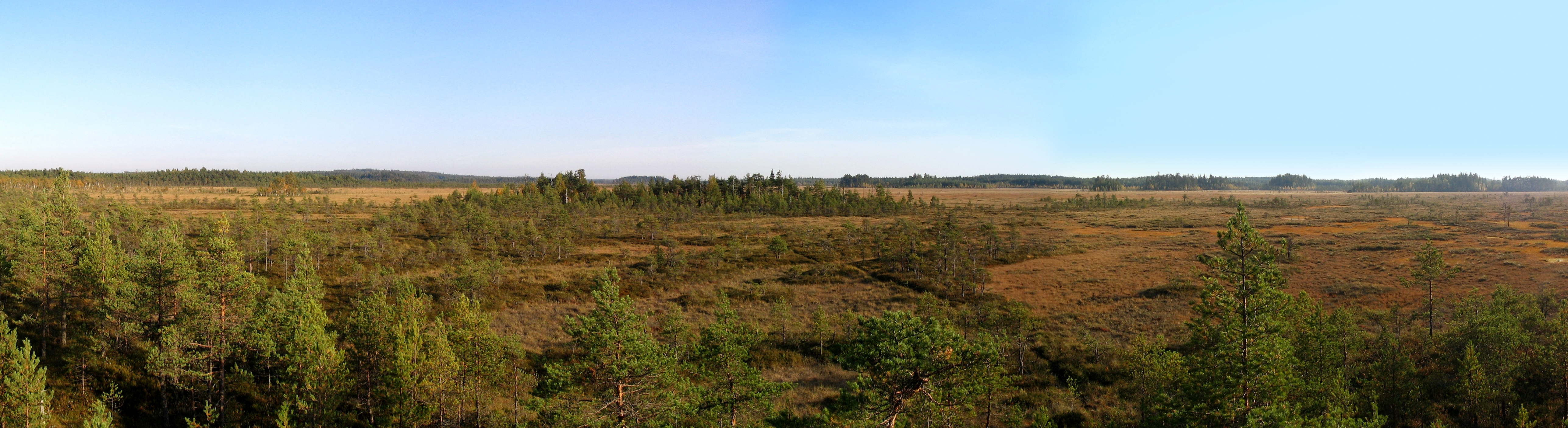 The view from Valkmusa bird watching tower.